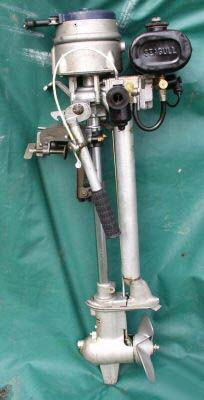 British Seagull Forty Plus with Clutch and Recoil Start